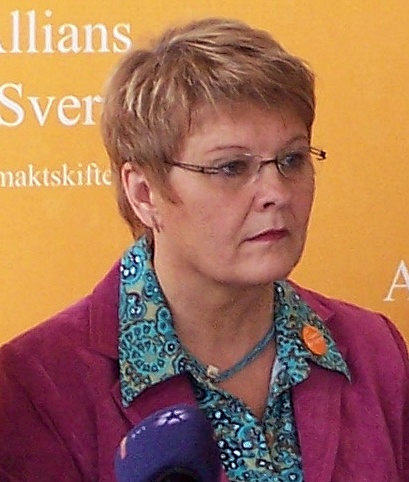 Maud Olofsson